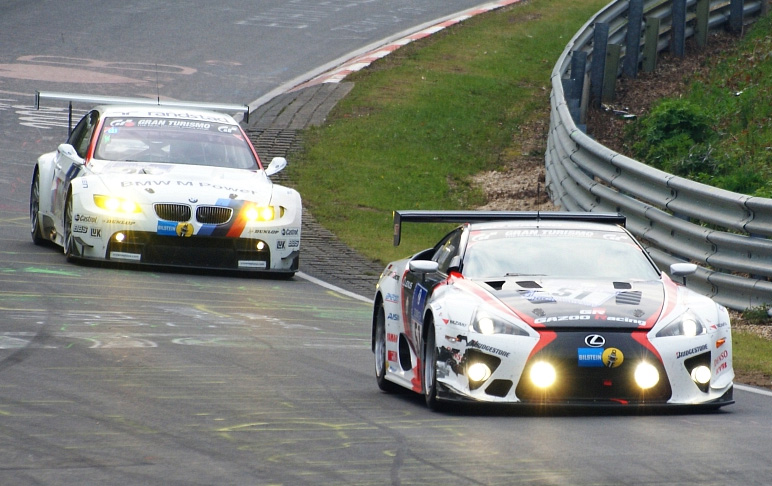 BMW M3 E92 behind nr. 50 Lexus LF-A by Gazoo Racing, Japan